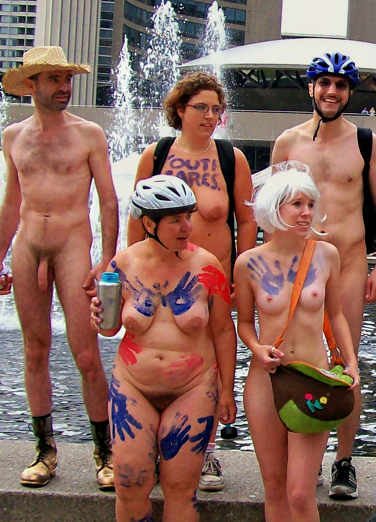 Paricipants in the 2011 World Naked Bike Ride, Toronto